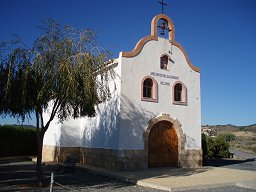 Ermita Santísimo Cristo de la Junquera